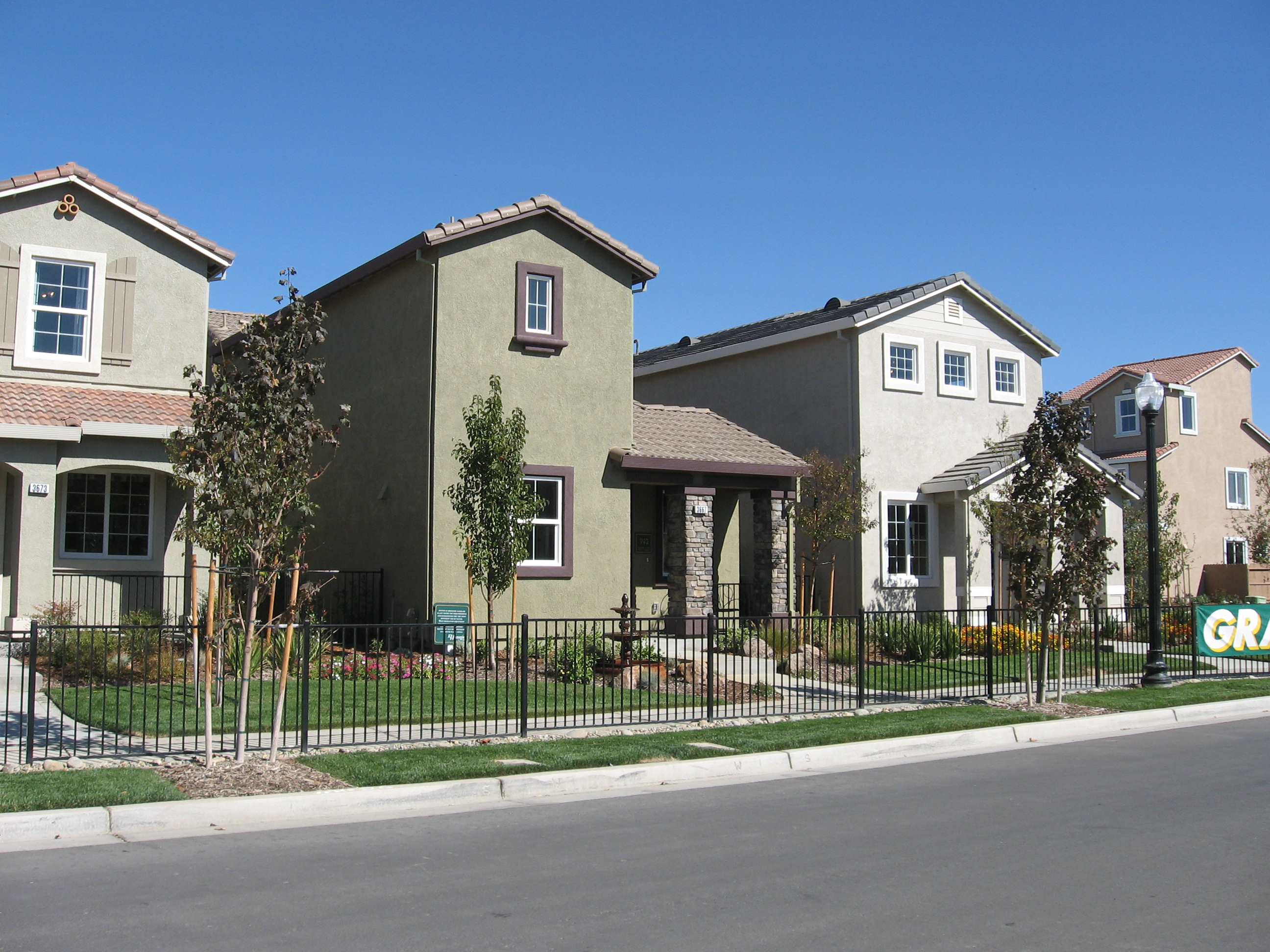 Model homes at K. Hovnanian's Westshore in Sacramento. In front are the three model homes for the Carriage Series and the three story in back is part of the models for the Ridgefield Series. Taken on October 6, 2007.